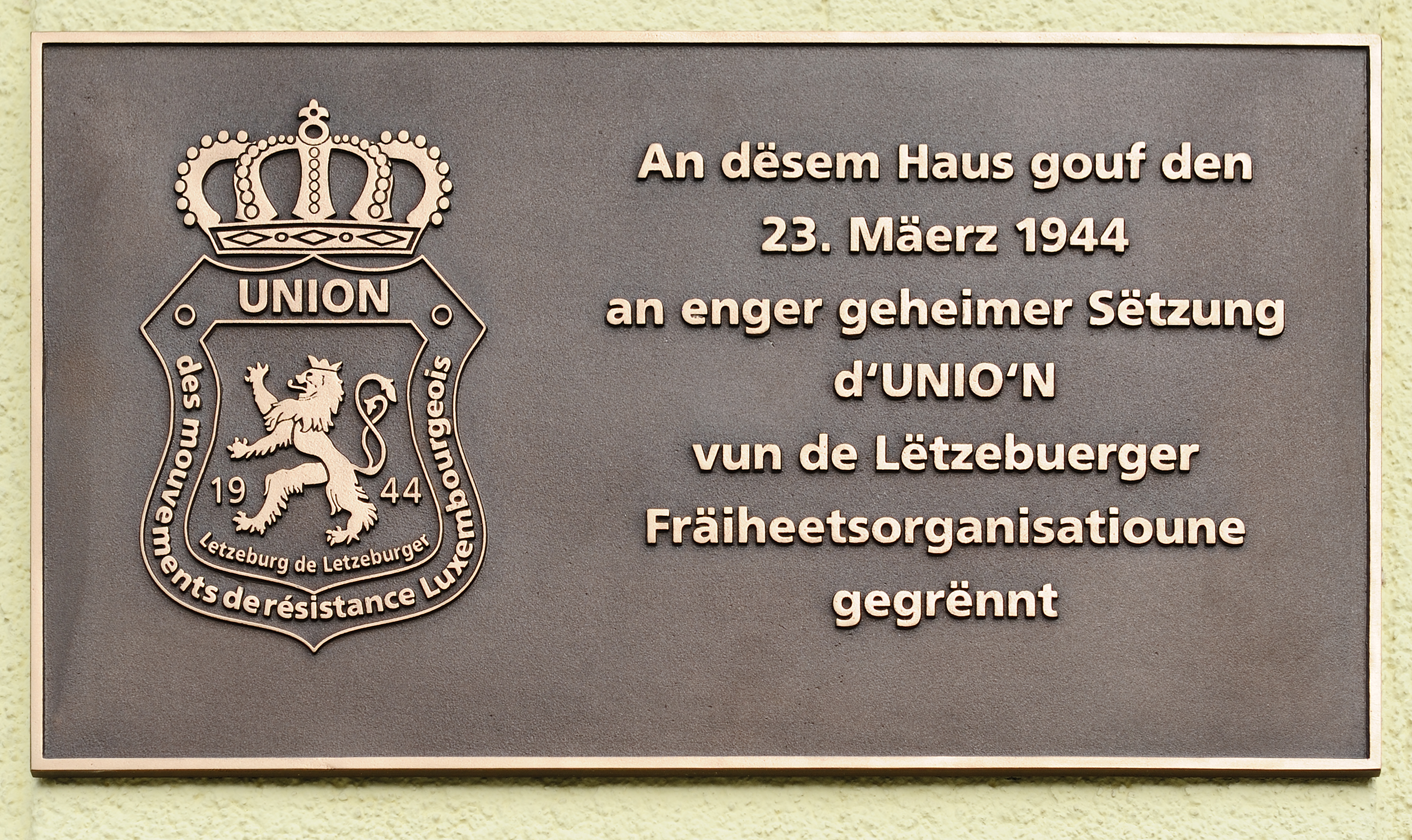 Luxembourg-Bonnevoie: plaque commemorating the creation of Unio'n, the organization that united several groups which resisted and combatted the German occupation of the country during World War II.